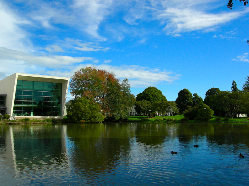 A picture of the Academy of Performing Arts, University of Waikato, Hamilton.